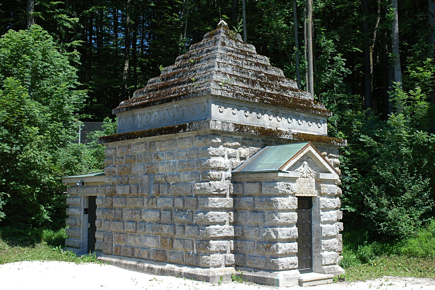 Art nouveau building made of limestone situated just over the Viehberg mine exit of the Ranna culvert near Hersbruck. The lettering above the entrance means: „Water supply of Nuremberg City 1911“